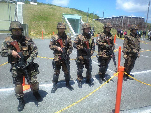 Japan Air Self-Defense Force airmen from No. 27 Aircraft Control and Warning Group, Ōtakineyama Sub Base, Kawauchi, Fukushima, demonstrate close-quarters combat weapons including Type 64 rifles.